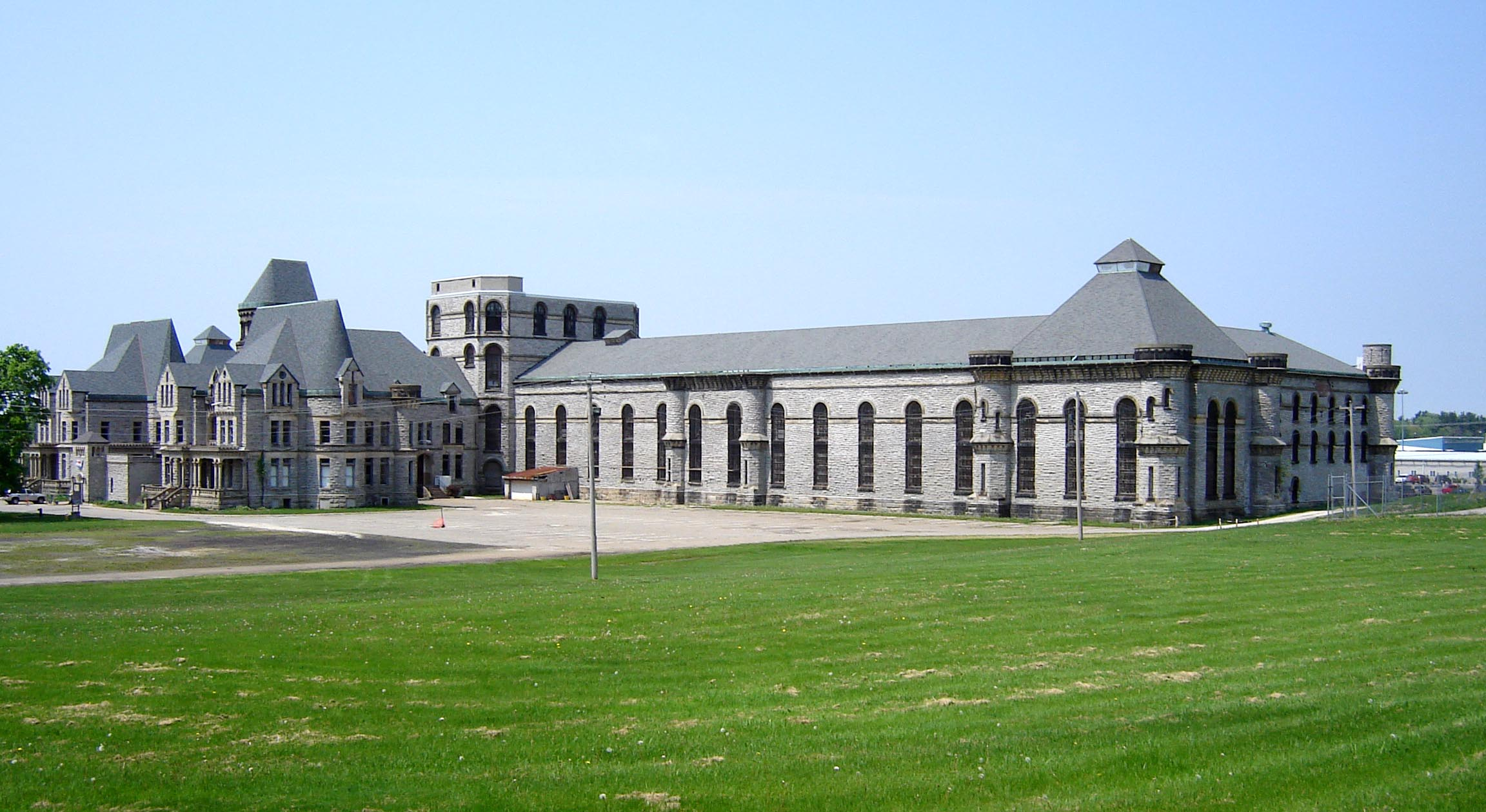 Mansfield Reformatory. Now closed. Used for making movies like The Shawshank Redemption and Ghost ghost tours, even wedding receptions?? Mansfield, Ohio, Mansfield (Ohio)